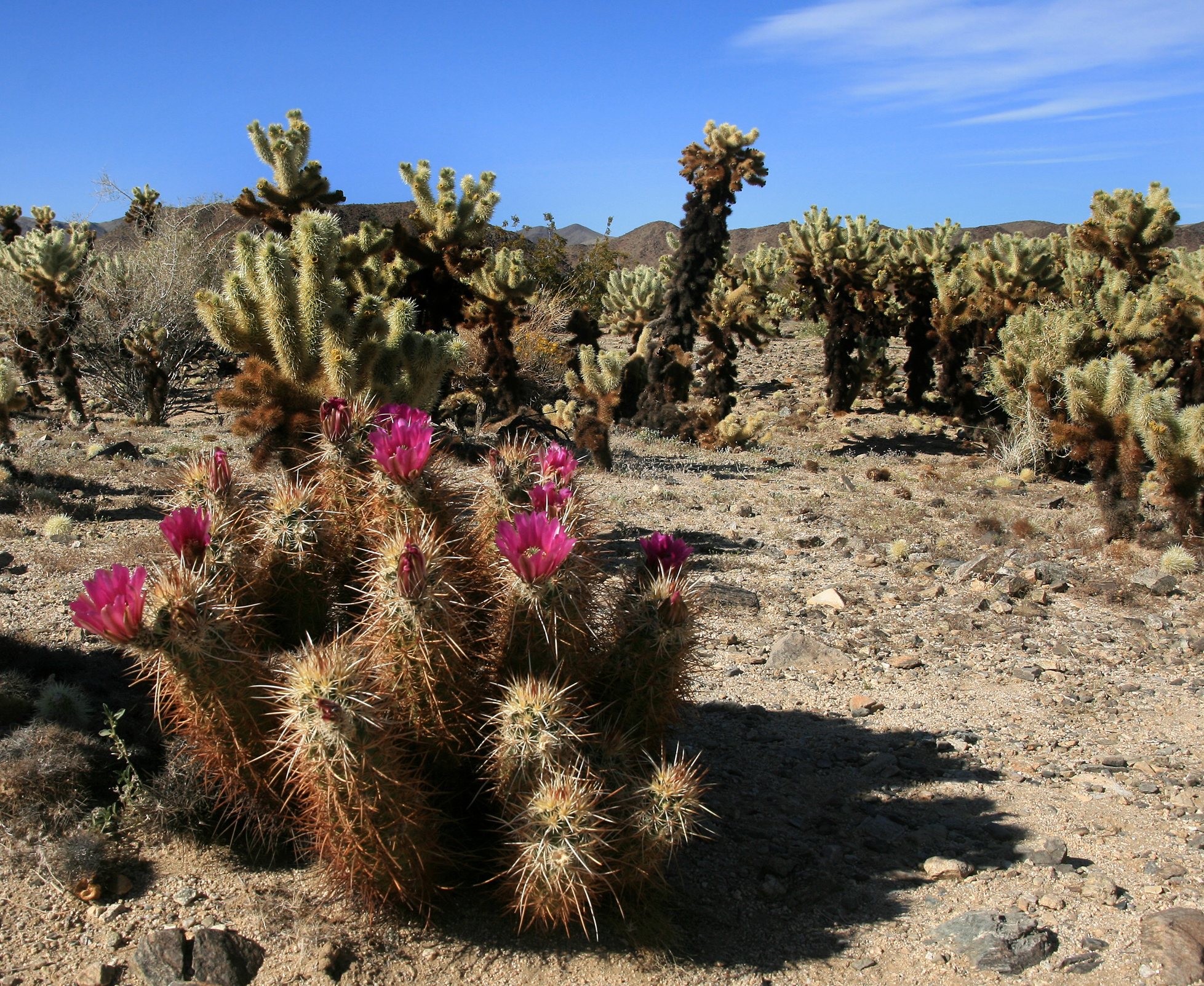 Echinocereus engelmannii in bloom and Cylindropuntia bigelovii in Joshua Tree National Park